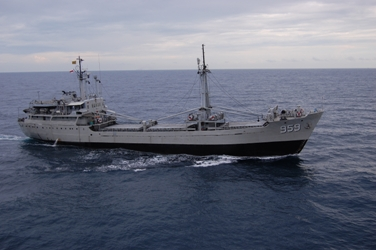 Indonesian Navy small auxiliary ship KRI Mentawai 959 bought in 1964 from Hungary.